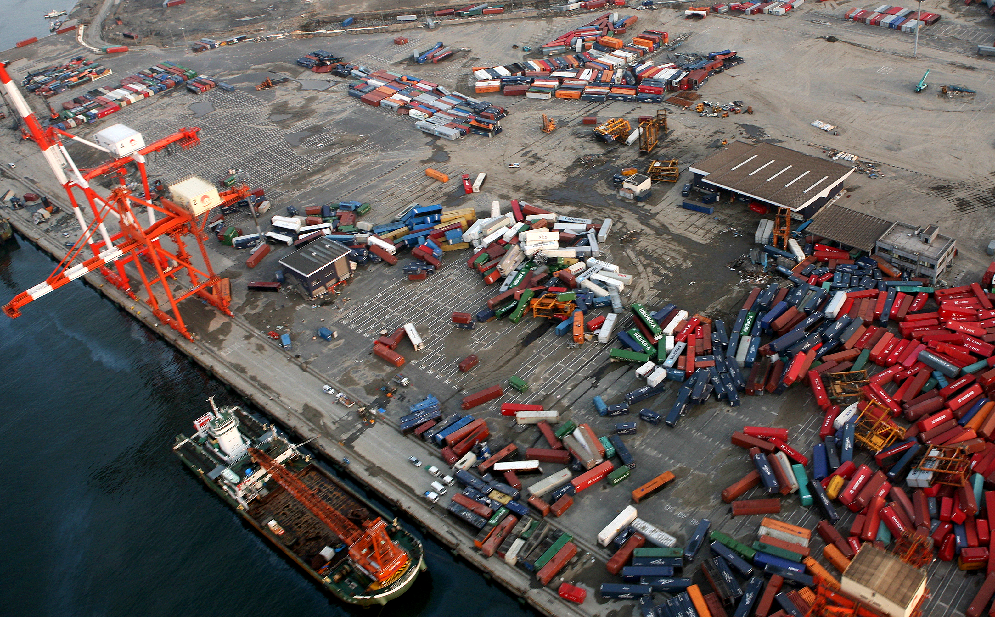 HONSHU, Japan - Shipping containers remain scattered like toy blocks in a shipyard of a northern coast of Japan. A massive tsunami, triggered by a 9.0 magnitude earthquake March 11, 2011, ravaged coastal areas of northern Japan, destroying homes and businesses and displacing hundreds of thousands of Japanese citizens. (U.S. Marine Corps Photo by Cpl. Megan Angel/Released)